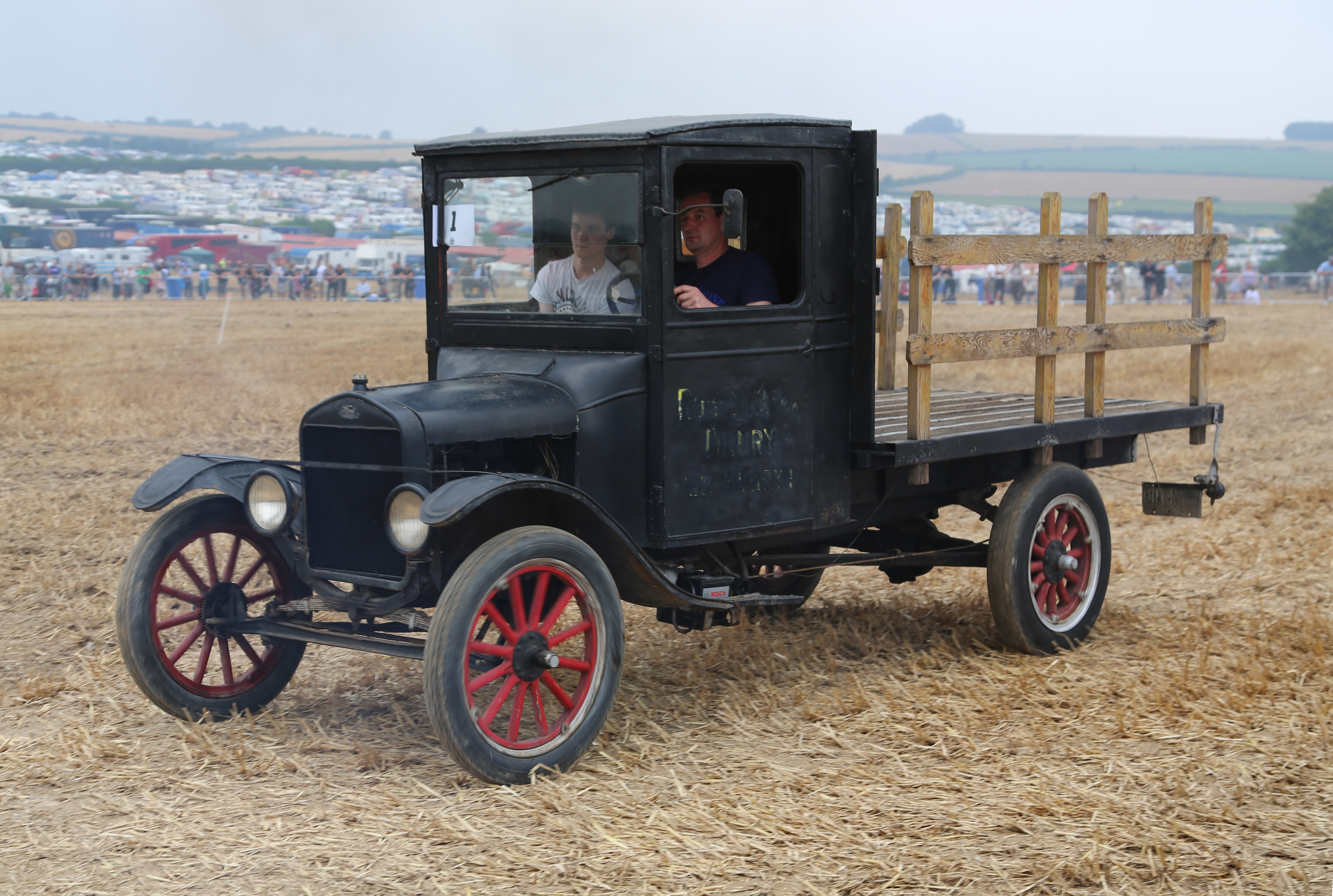 Photo of a 1925 ford TT truck in an unrestored condition